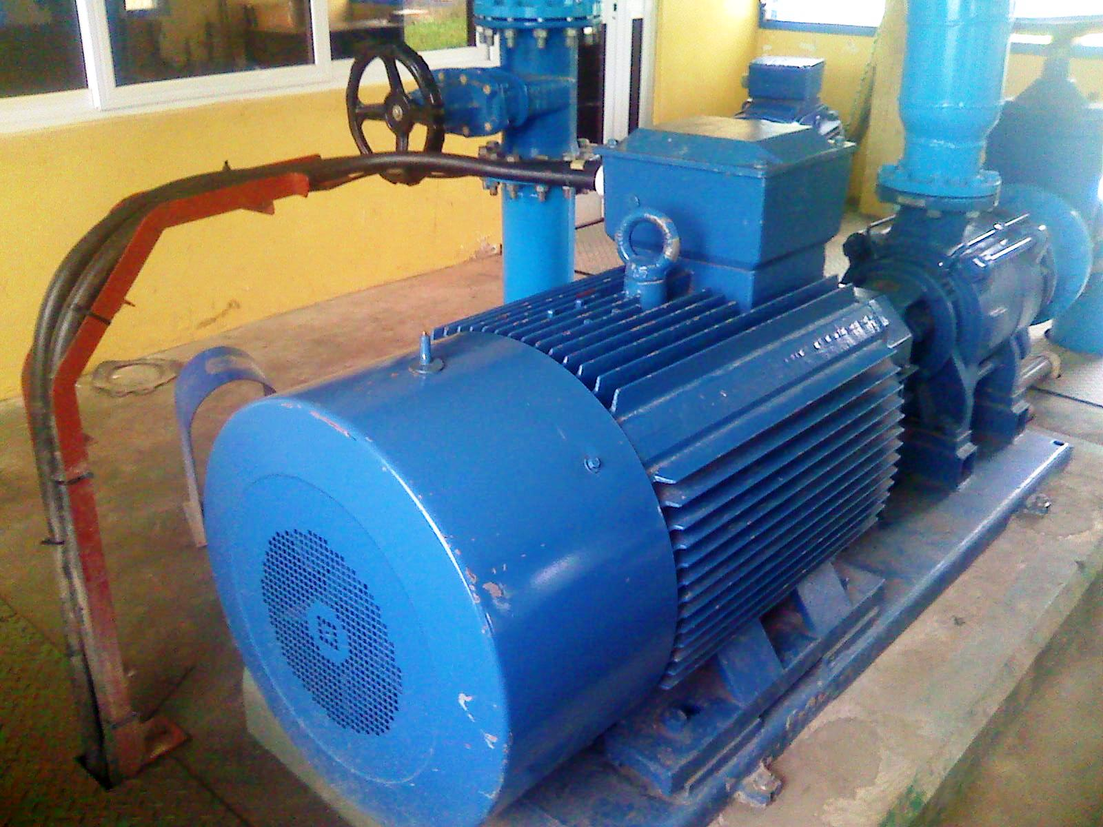 This is a pumping station that is no more in use, but used to pump water from the Densu River to a nearby town for treatment